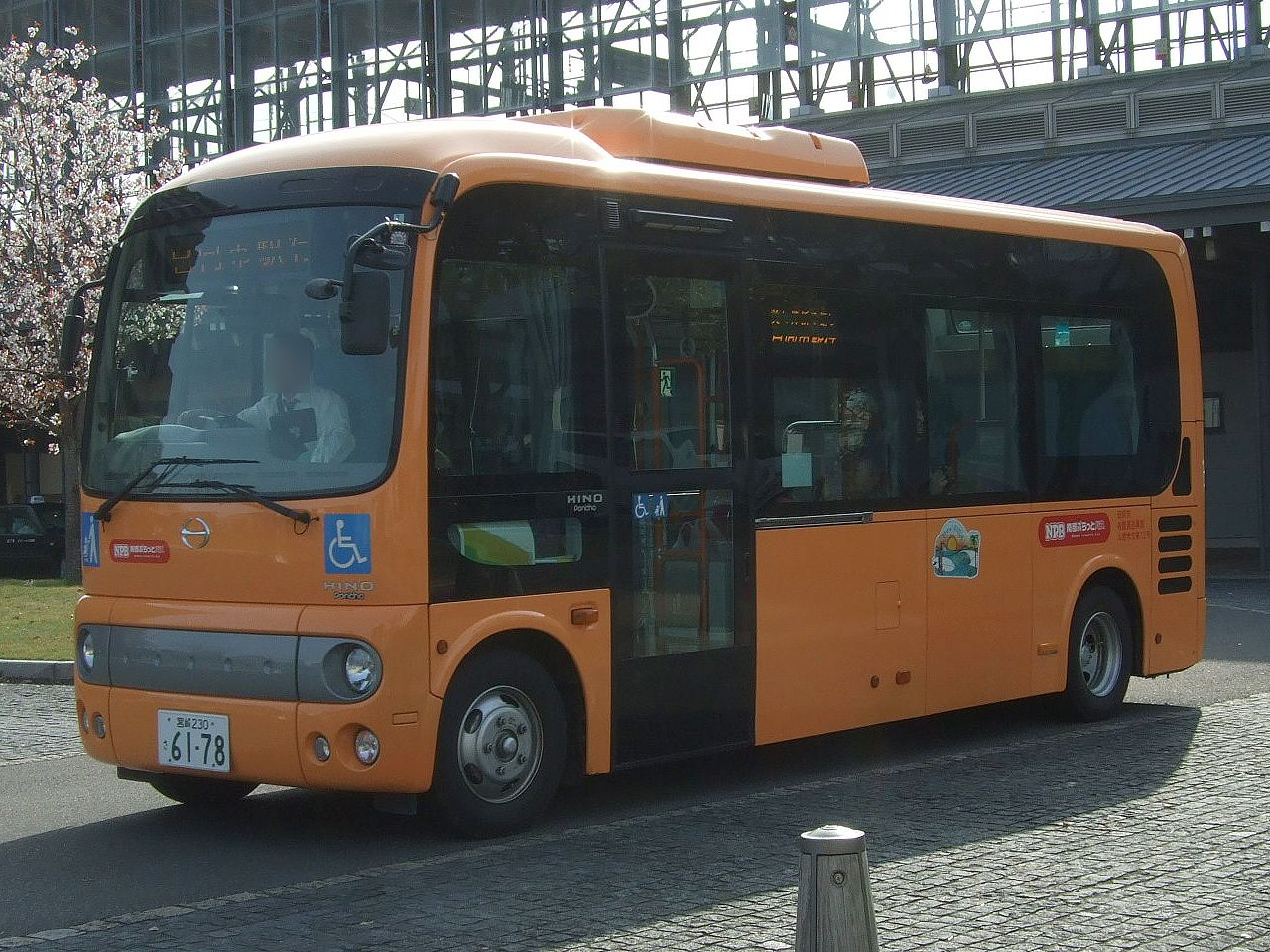 Hyuga City Community Bus "Nanbu Puratto Bus" Use:transit bus (community bus) Car license:MZ 230 SA 6178 Chassis manufacturer:Hino Type:Poncho Coachbuilder:J-BUS Location:In front of Hyuga-shi Station, Hyuga, Miyazaki, Japan.